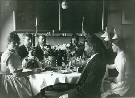 Georg Brandes som gæst ved Agnes og Harald Slott-Møllers bryllupsmiddag 22. maj 1888 Person: Slott-Møller, Agnes, f. Rambusch (1862-1937), maler Slott-Møller, Harald (1864-1937), maler Rohde, Johan (1856-1935), maler, grafiker Rambusch, Constantine Juliane, f. Hansen (1834-1891) Brandes, Georg (1842-1927), forfatter, kritiker Muus, Agathe, f. Rambusch (1871-1941)